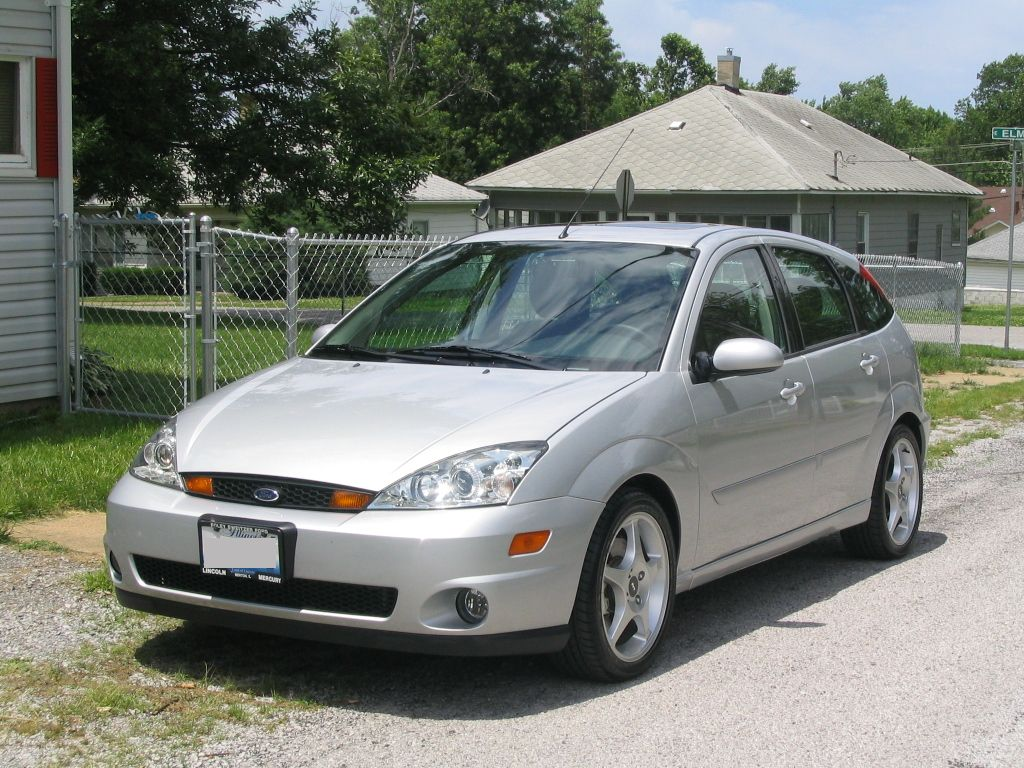 2003 Ford Focus SVT ZX5